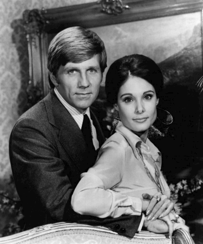 Photo of Gary Collins and Catherine Ferrar from the television program The Sixth Sense.